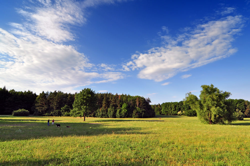 Hostivar forest park